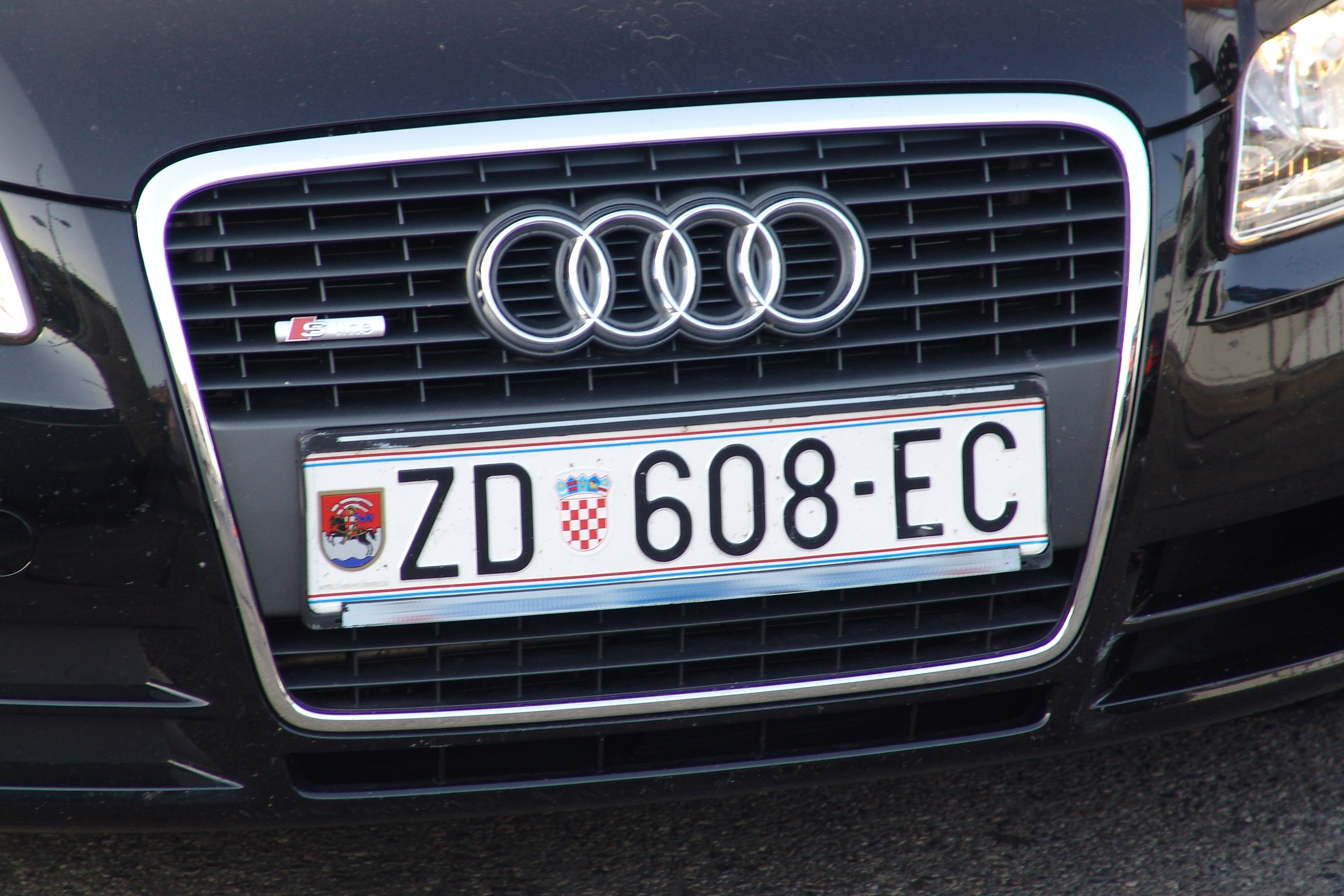 Croatian license plate on an Audi A4, picture taken in Monaco